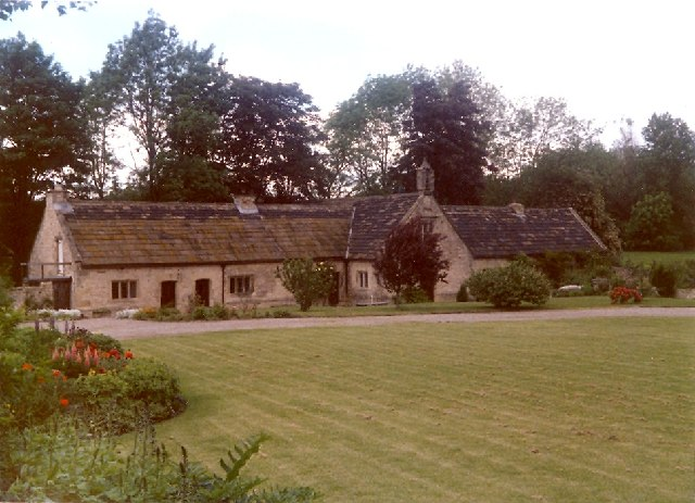 Christ's Hospital, Firby. This is a block of former almshouses built in 1608. It had a chapel in the central gabled wing. 'Hospital' is an old word for almshouses (cf Hospice). Taken in 1988.